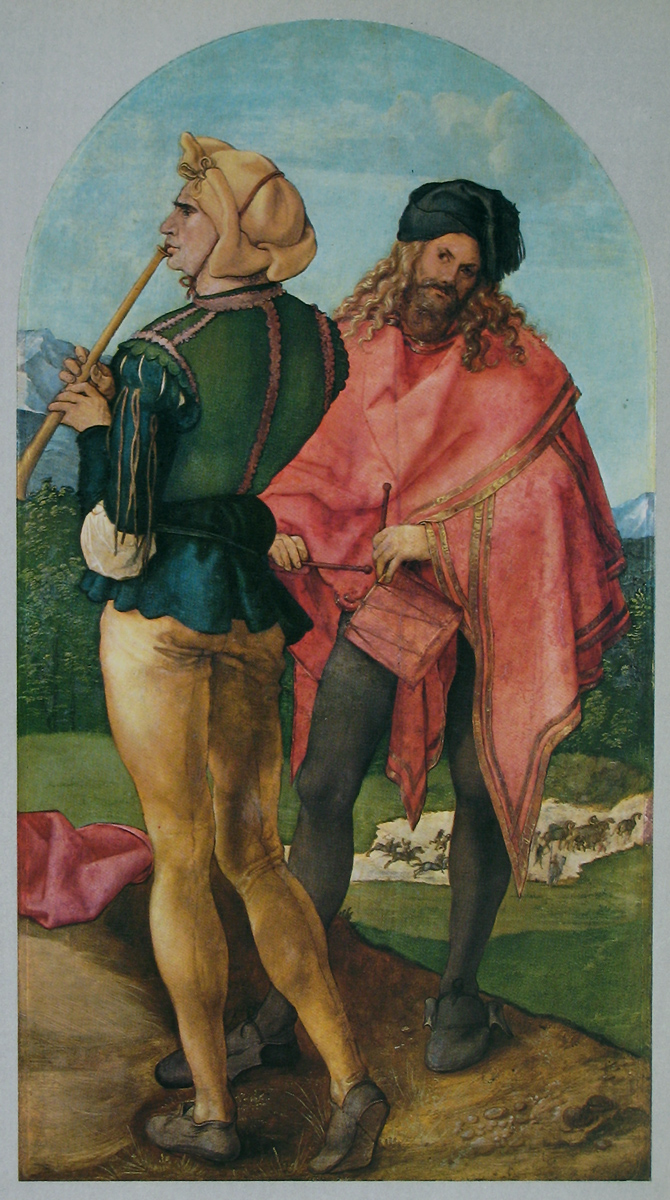 Piper and Drummer